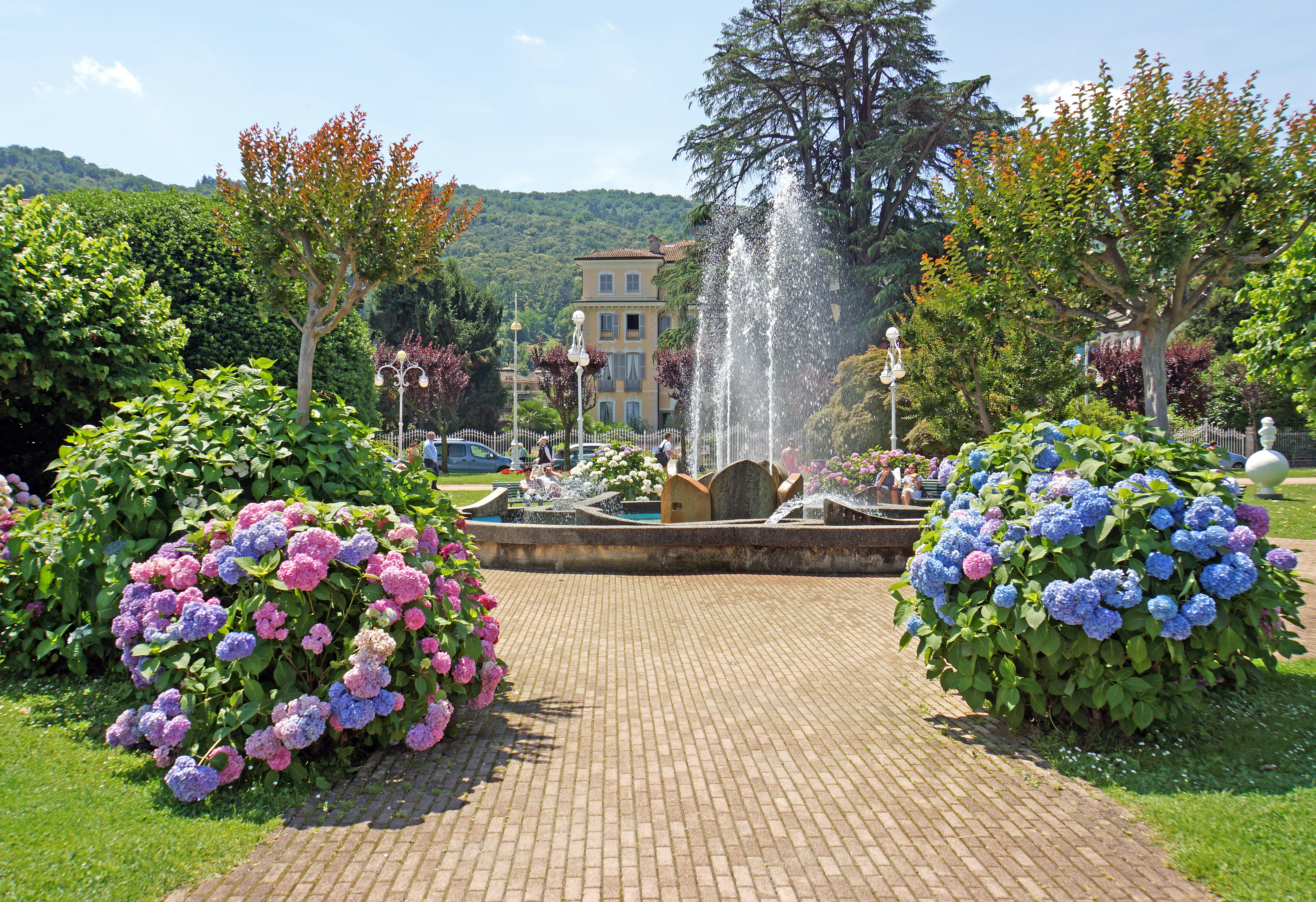 PLEASE, NO invitations or self promotions, THEY WILL BE DELETED. My photos are FREE to use, just give me credit and it would be nice if you let me know, thanks. Stresa has a great waterfront park and beach area to explore.